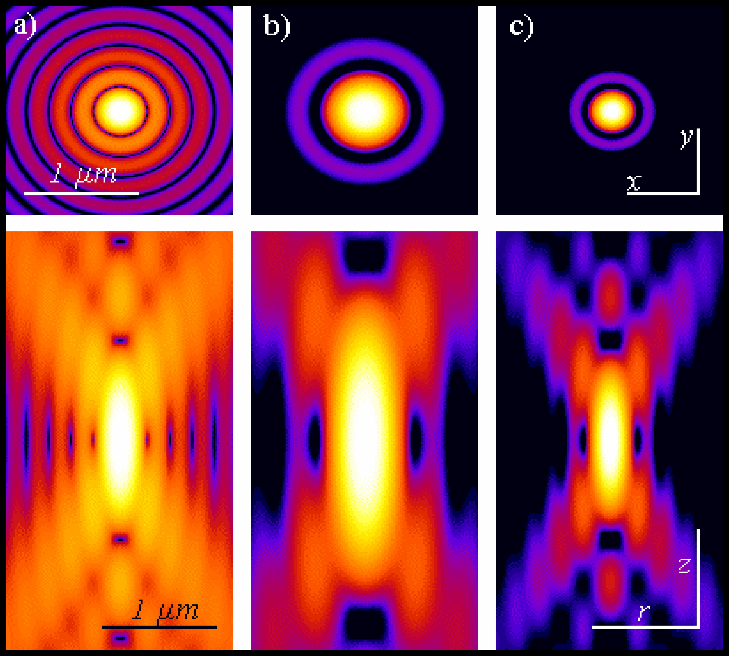 Original figure legend: Pointlike emitter optical response. From left to right: calculated x-y (above) and r-z (below) intensity distributions, in logarithmic scale, for a point like source imaged by means of wide-field, 2PE and confocal microscopy. Both 2PE and confocal shapes exhibit a better signal to noise ratio than widefield case. 2PE distribution is larger due the fact that a wavelength twice than in the wide-field and confocal case is responsible for the intensity distribution. Such intensity distributions are also known as point spread functions of the related microscopes. Optical conditions: excitation wavelengths are 488 nm and 900 nm for 1PE and 2PE, respectively; emission wavelength is 520 nm; numerical aperture is 1.3 for an oil immersion objective with oil refractive index value set at 1.515.